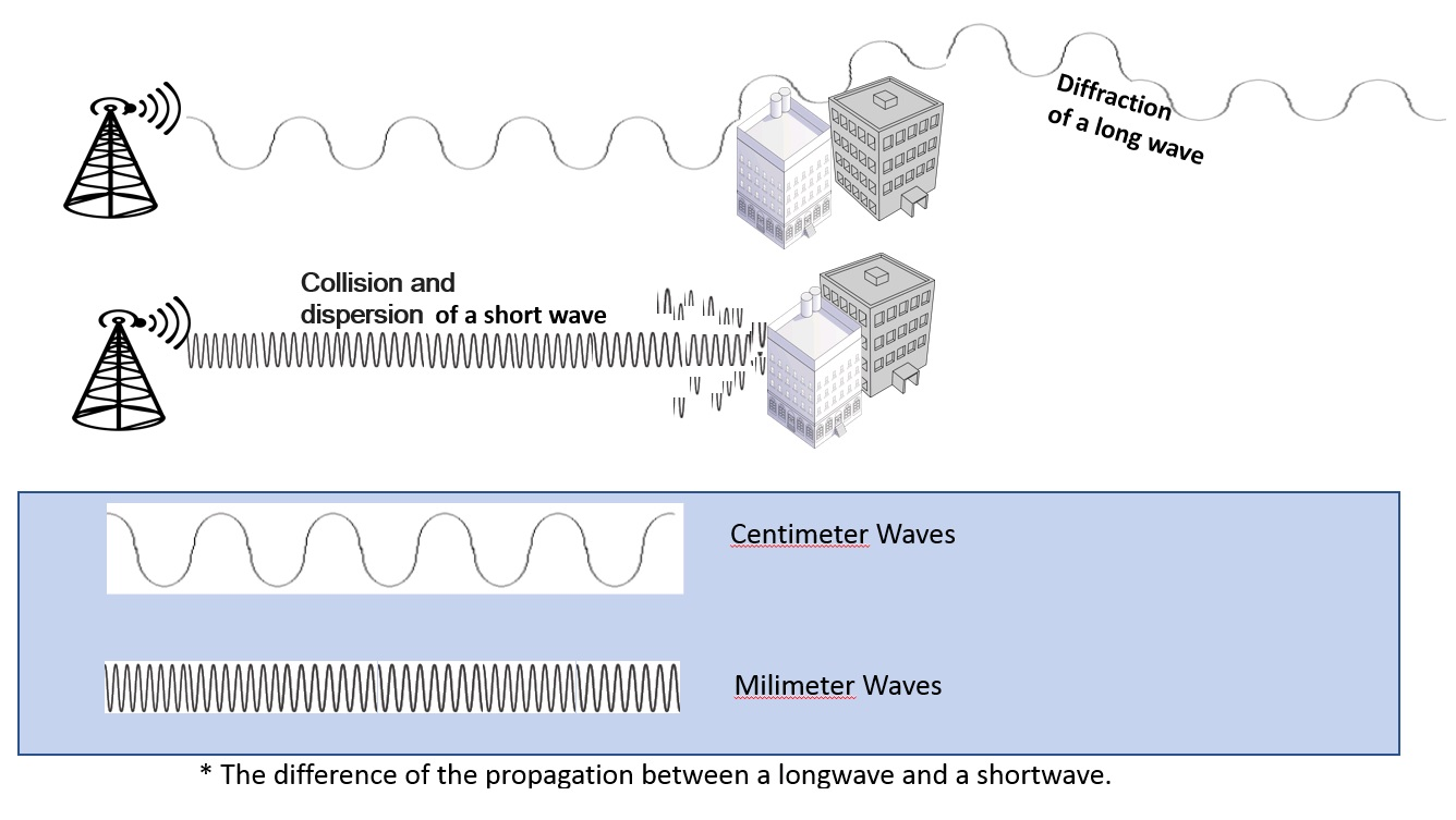 The difference of the propagation between a longwave and a shortwave. Utilised the open source icons below